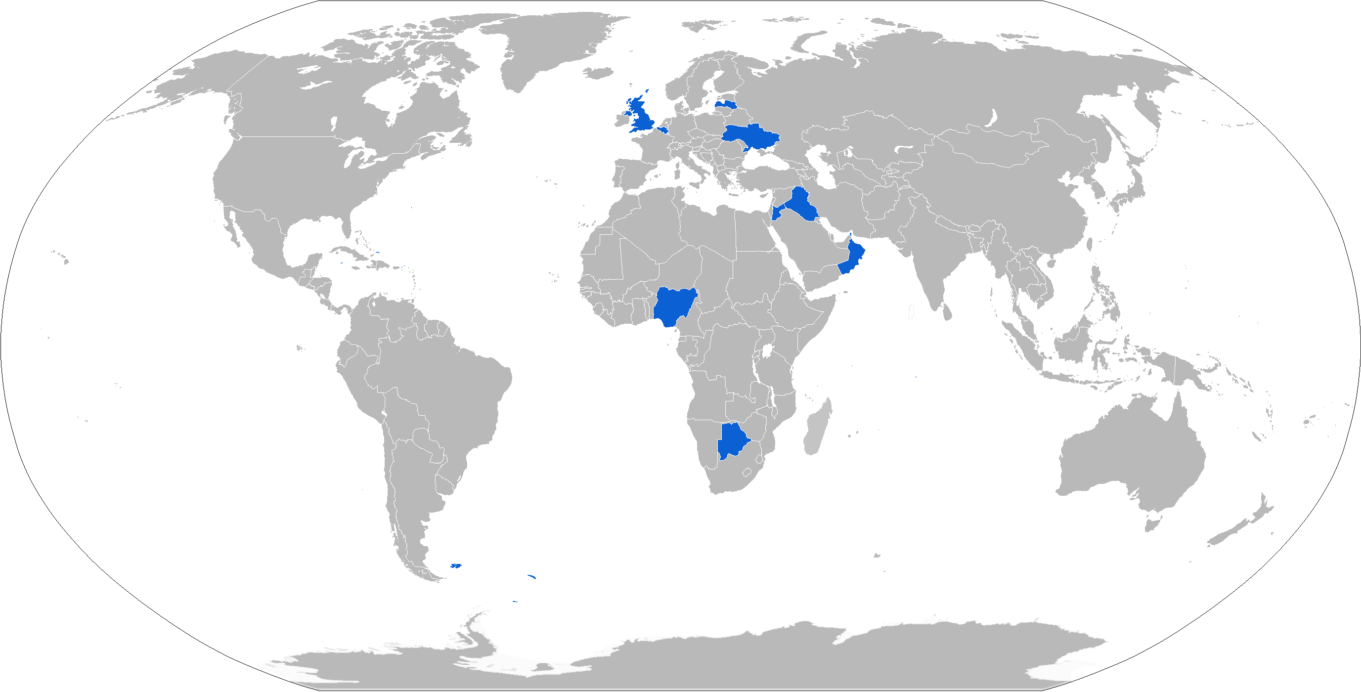 Map of FV103 operators in blue